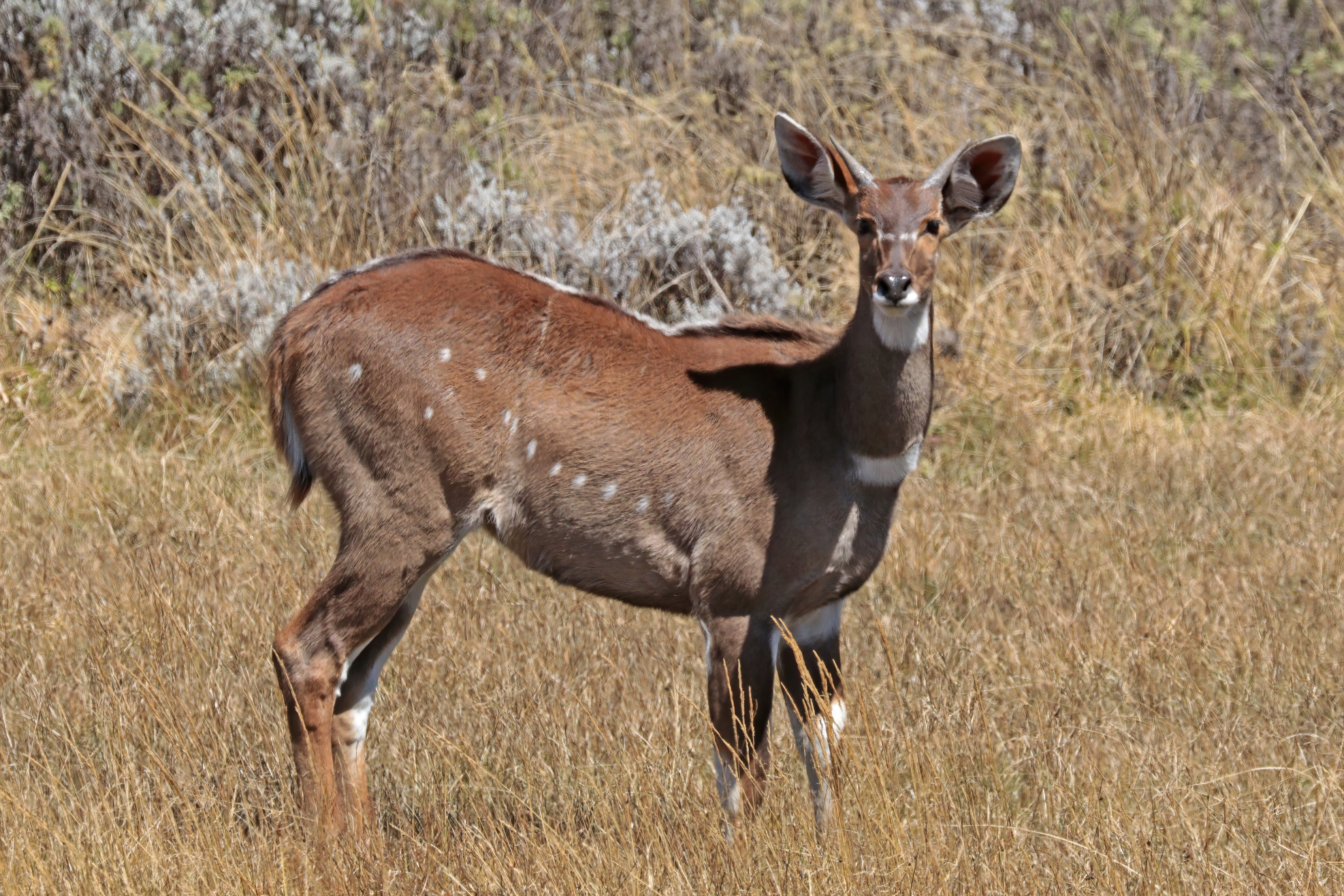 Mountain nyala (Tragelaphus buxtoni) female, Bale Mountains National Park, Ethiopia